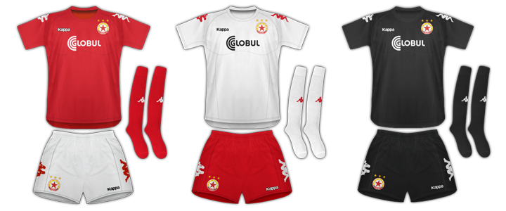 CSKA Sofia's 2011/2012 seson kits